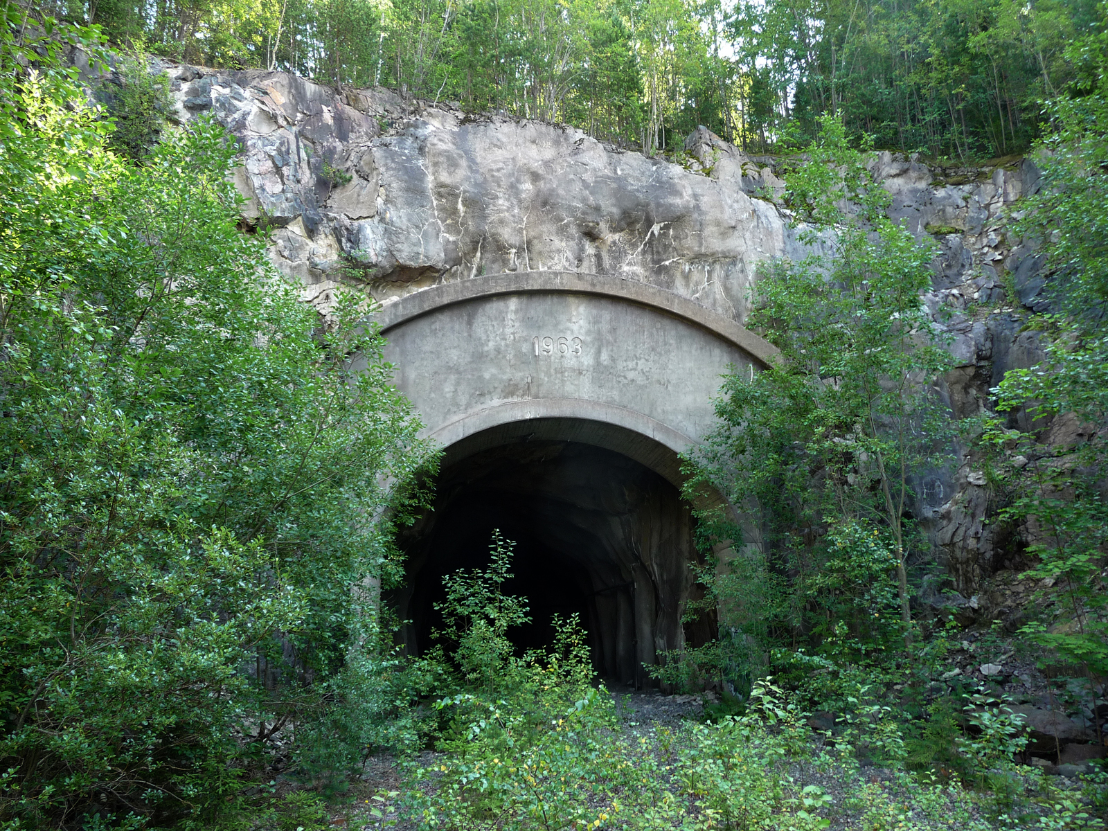 Old Railroad Line Helsinki–Turku. Tunnel in Pohjankuru.